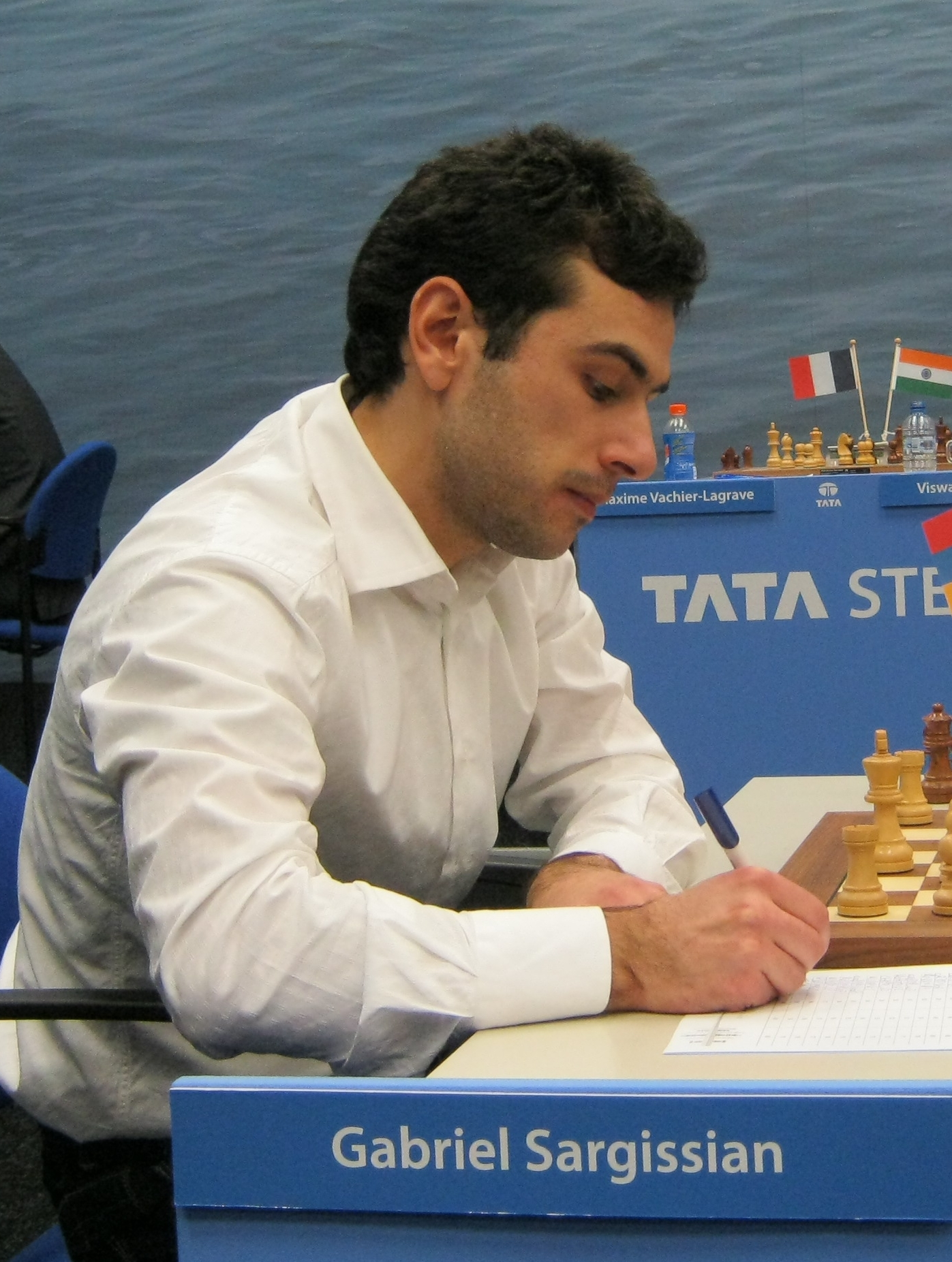 Gabriel Sargissian, chess grandmaster from Armenia